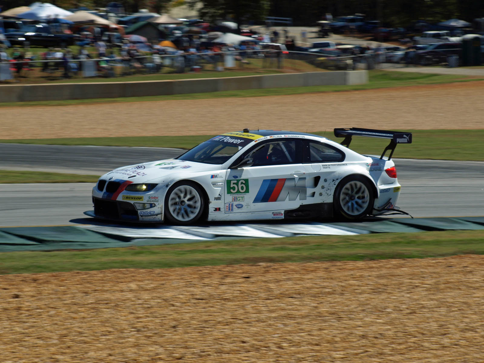 Jonathan Summerton in the Rahal Letterman Lanigan Racing BMW M3 GT2 at the 2012 Petit Le Mans